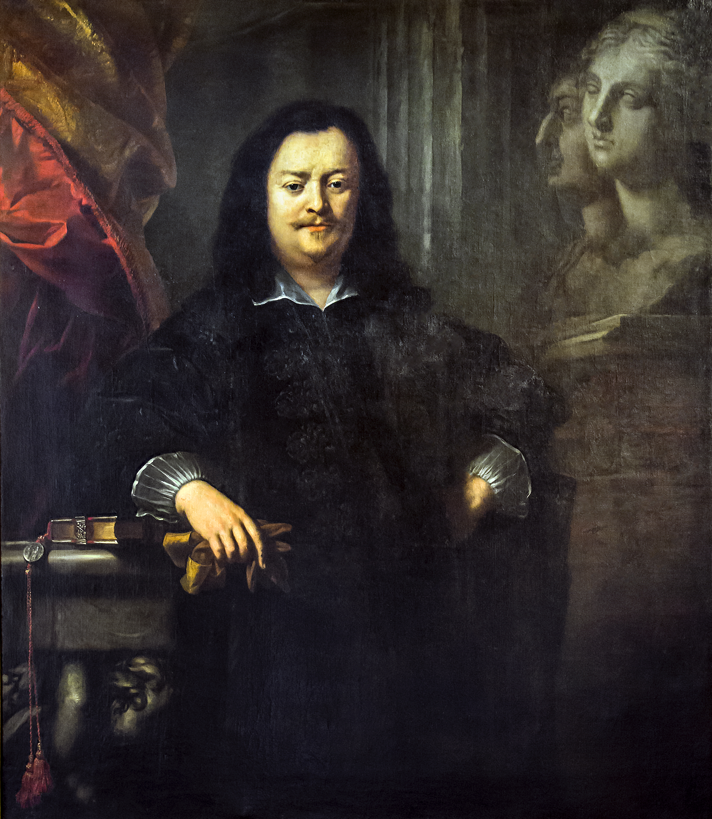 Portrait of Luigi Molin by Tiberio Tinelli (1637-1638), Gallerie dell'Accademia in Venice. Oil on canvas. Donation Molin in 1816. Inventory number: Cat.544